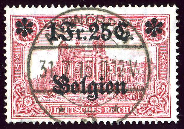 Overprint of a German 1 Mk stamp for use in occupied Belgium, 1Fr25C, cancelled ANTWERPEN in 1915.